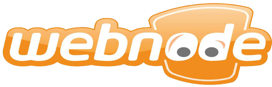 the logo of the website builder Webnode